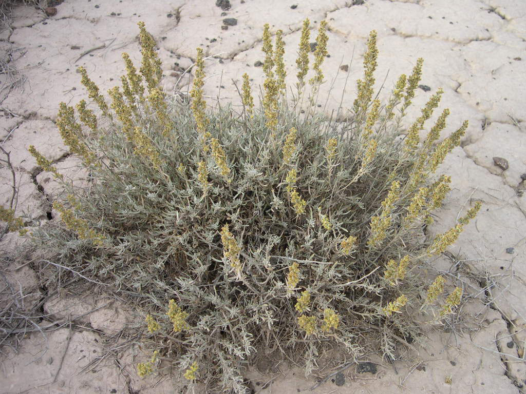 Artemisia_cana in southwest Idaho on seasonally wet playa